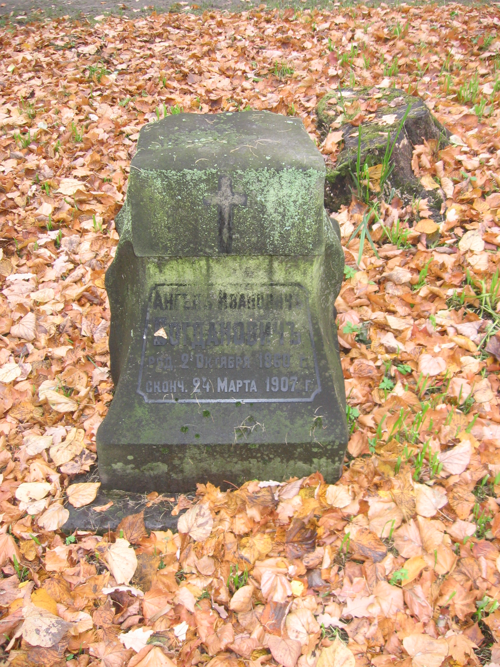 Grave of Angel Bogdanovich